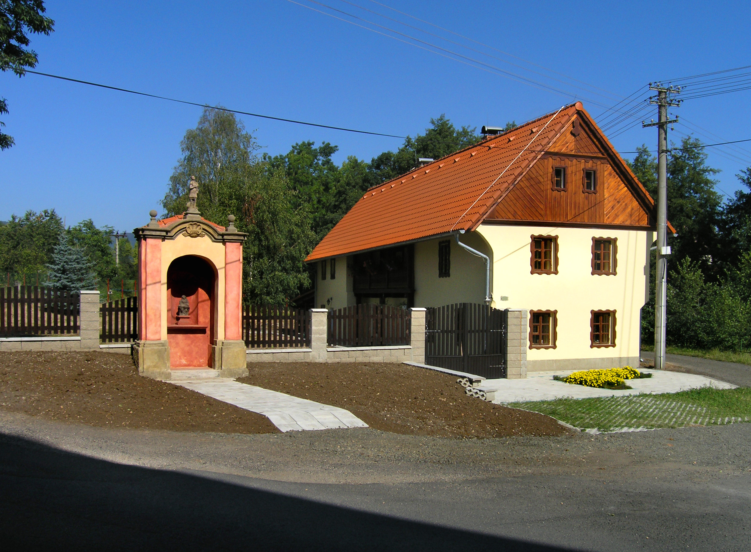 Býčkovice, Czech Republic